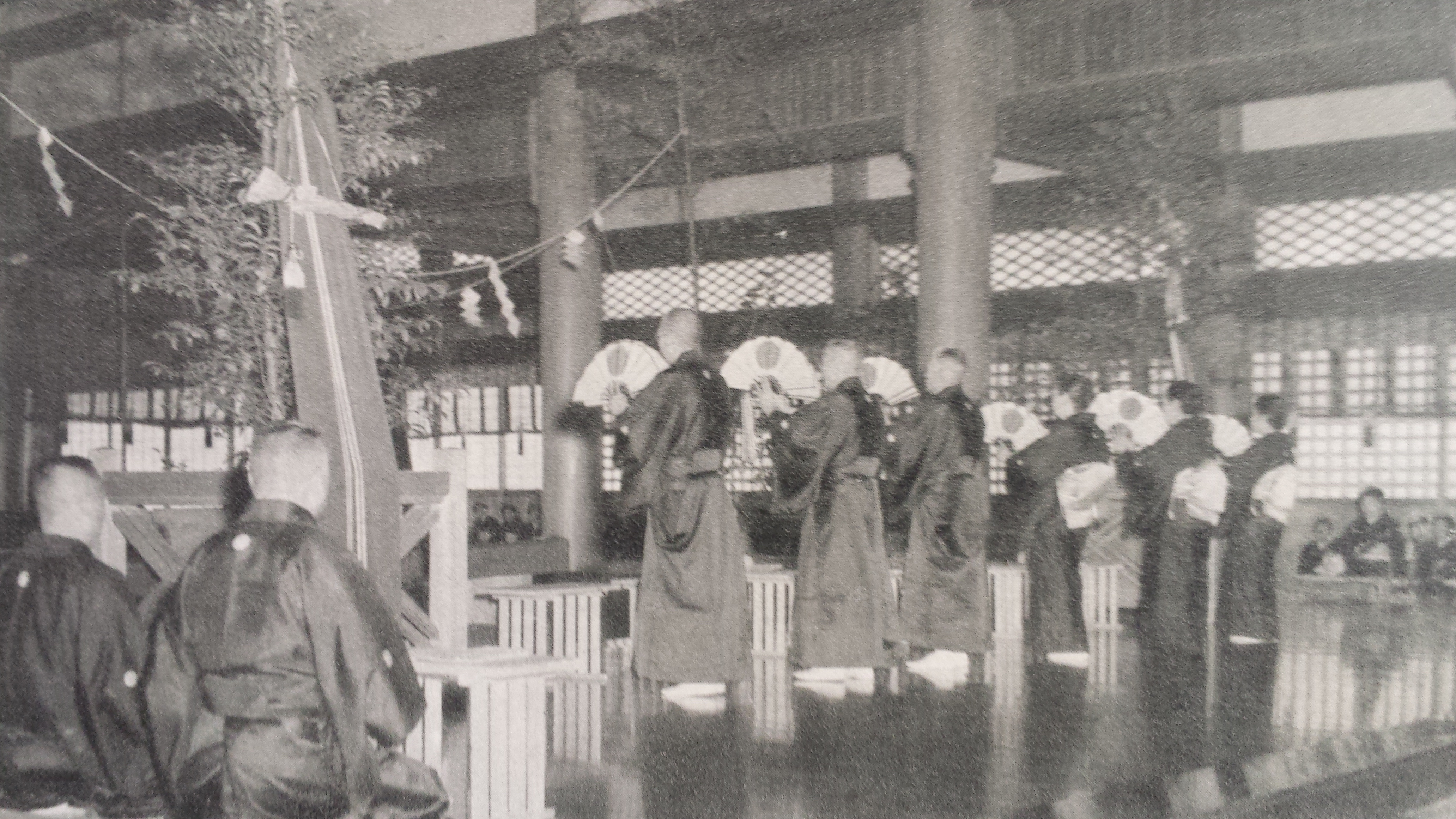 Tenrikyo Service dance at a Grand Service.